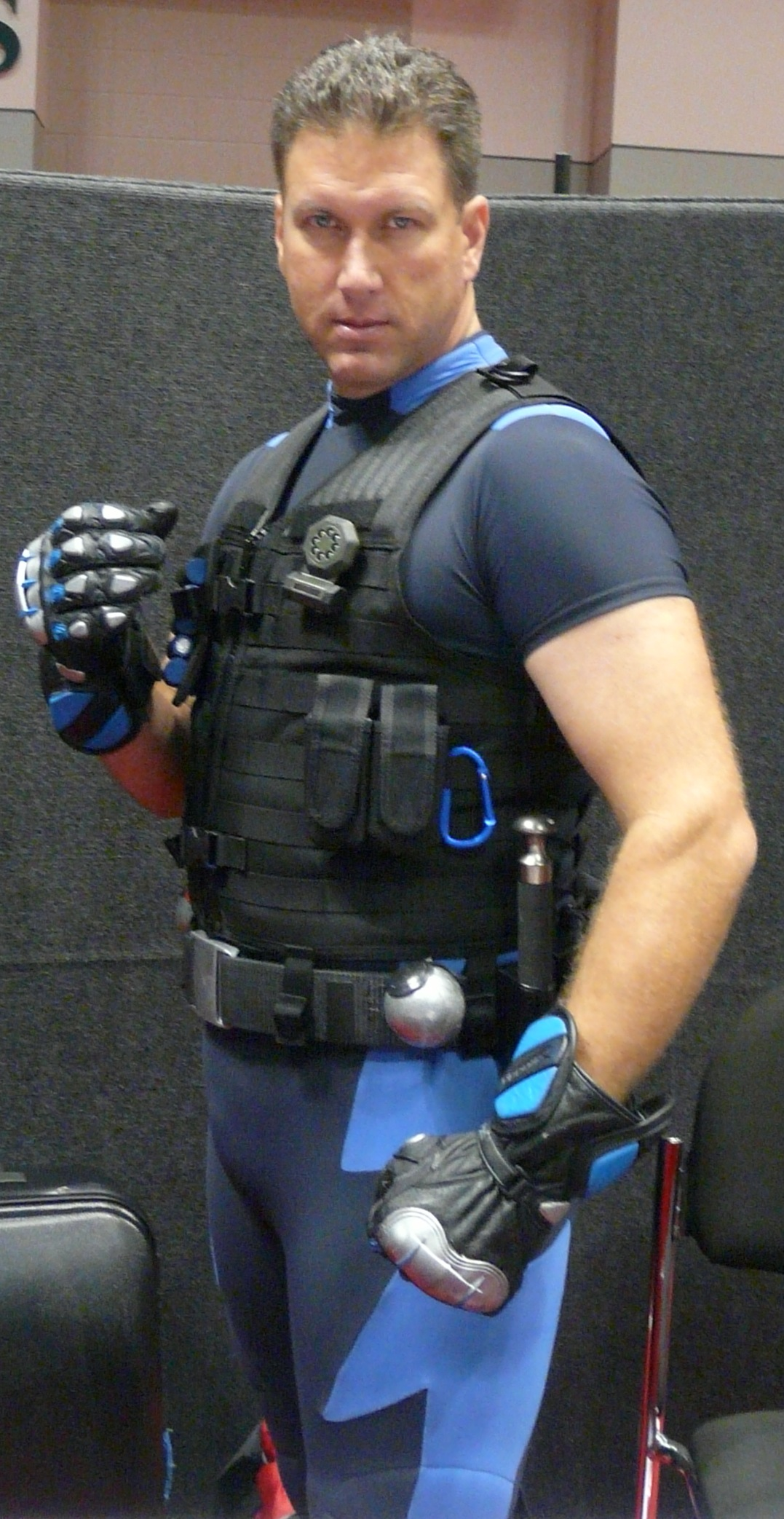 Austin, Texas police detective Jarrett Crippen posing as The Defuser, a superhero he created for the reality television series Who Wants to Be a Superhero?, at the Gen Con Indy 2008 in Indianapolis, Indiana.